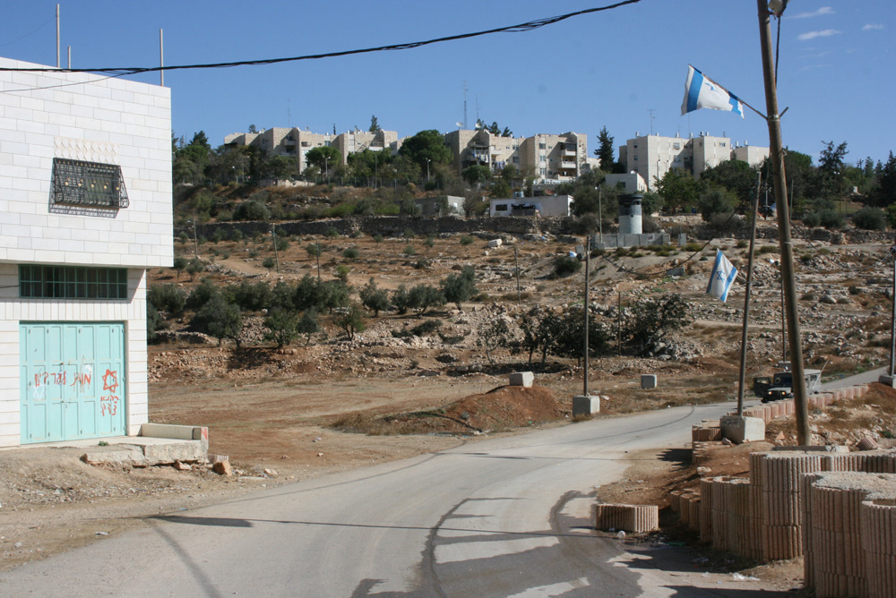 Palestinians car are denied access on road leading to the Kiryat Arba, even if it is on the Palestinian neighborhood of Wadi Al-Husain, in Hebron - photo by Stella